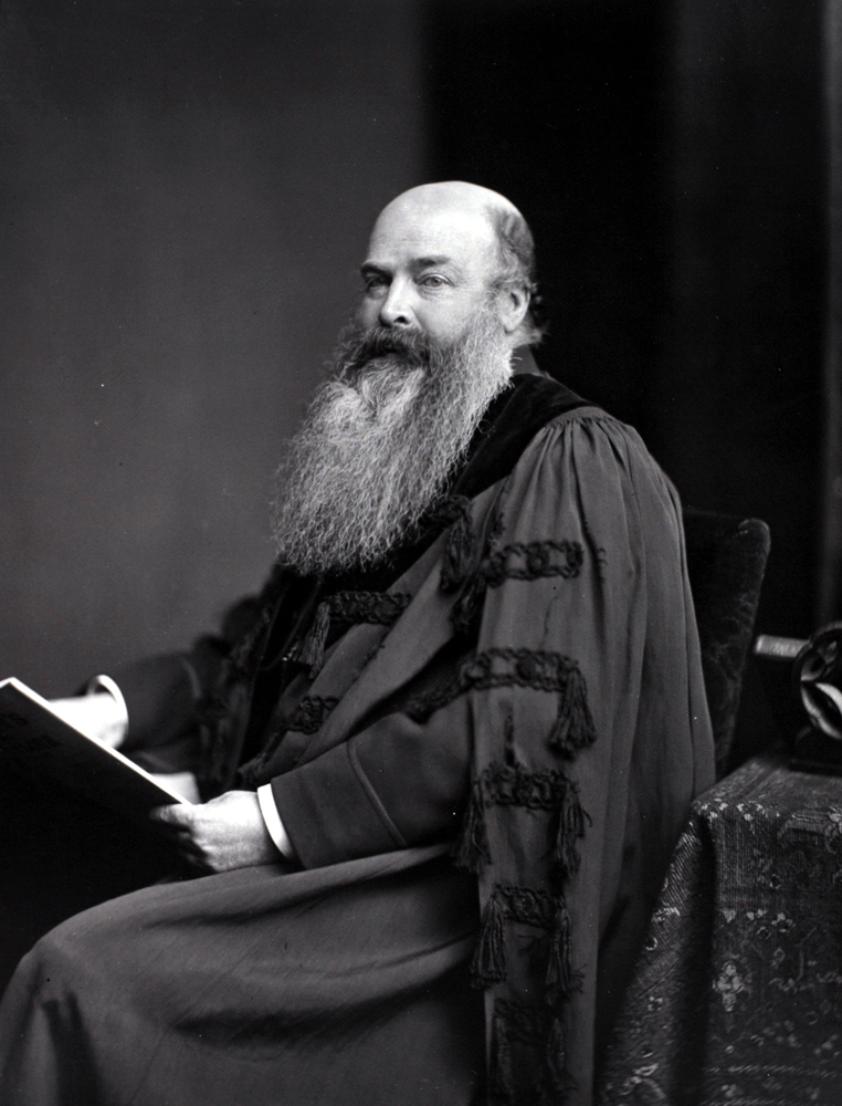 Thomas Anderson (* 2. Juli 1819 in Leith, Schottland; † 2. November 1874 in Chiswick), chemist.